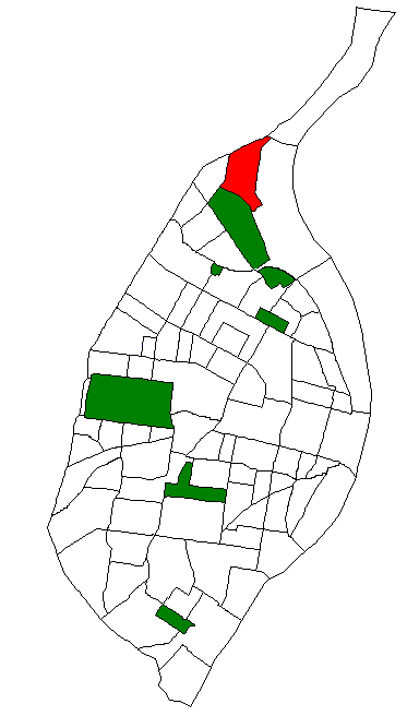 Map of St. Louis Neighborhood #74 (Baden)